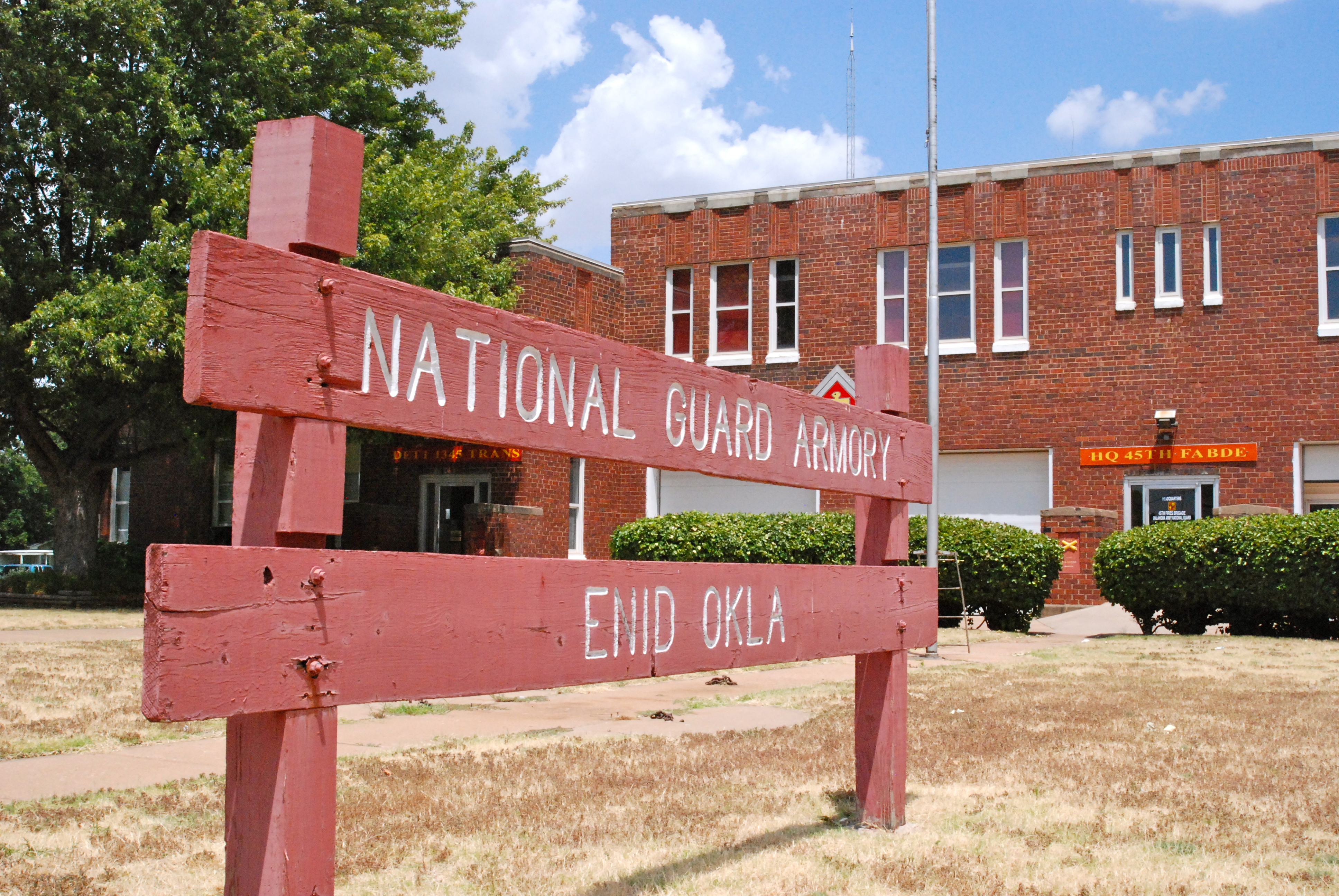 View of the sign and front of the Enid Armory. July 2011.